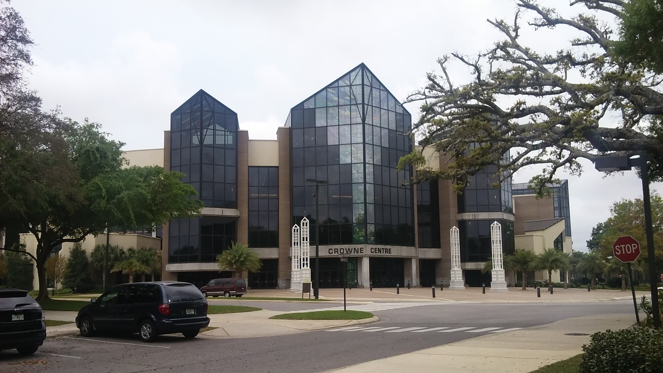 The main entrance to the Crowne Center, which serves as an auditorium and campus church for Pensacola Christian College. This image was taken during College Days, a public event held on the campus.